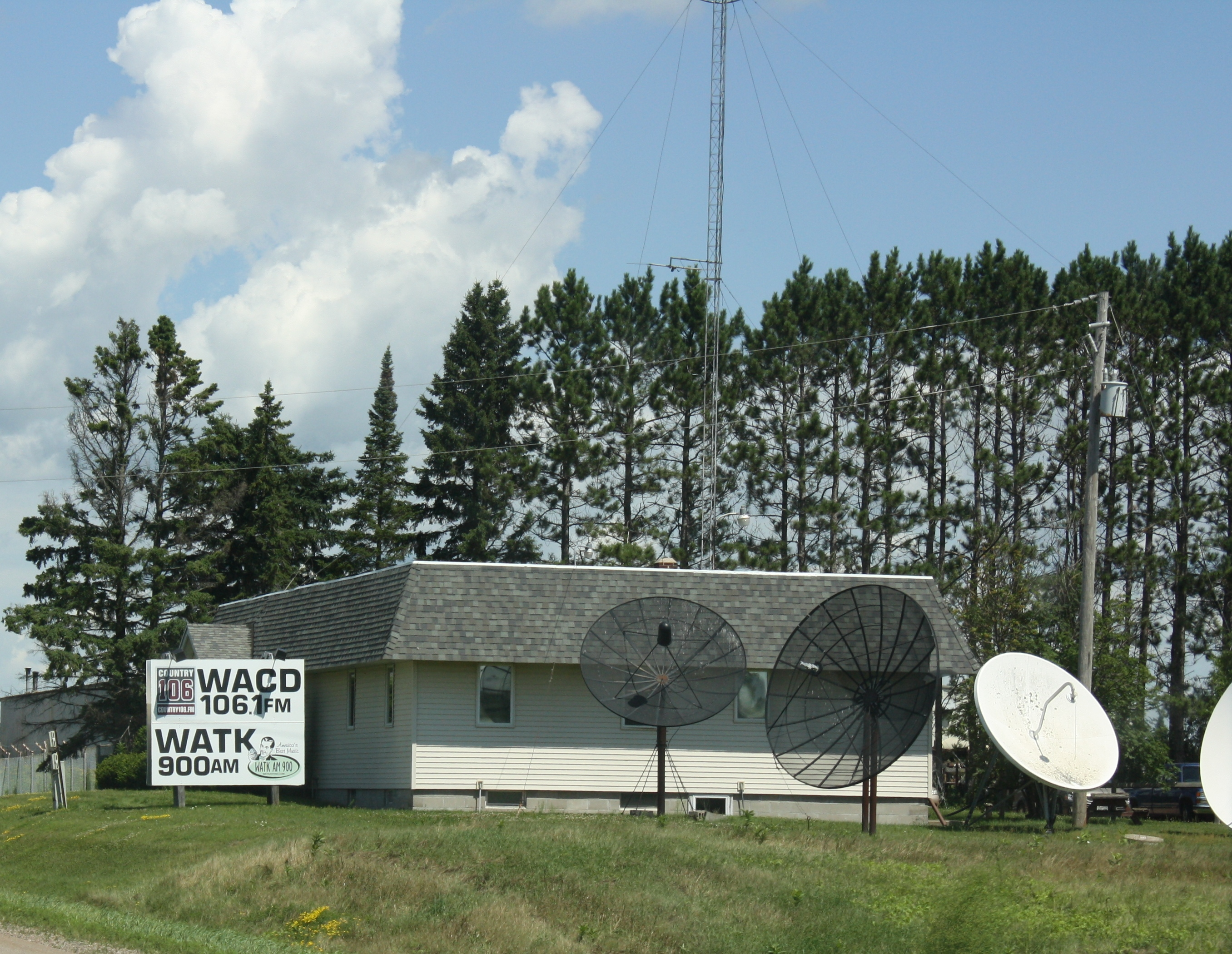 The studios for WACD / WATK near Antigo, Wisconsin on U.S. Route 45.